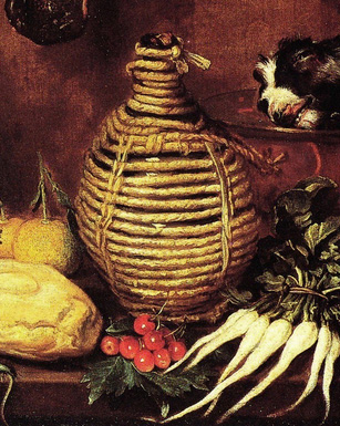 Fiasco still life (detail)